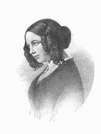 Catherine Hogarth in 1845, from a picture by Daniel Maclise, R.A.